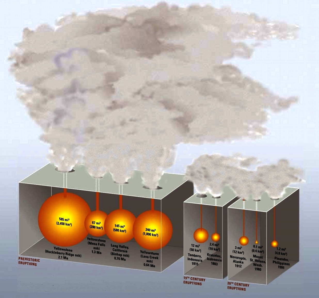 Comparison of major United States supereruptions (VEI 7 and 8) with major historical volcanic eruptions in the 19th and 20th century. From left to right: Yellowstone 2.1 Ma, Yellowstone 1.3 Ma, Long Valley 6.26 Ma, Yellowstone 0.64 Ma . 19th century eruptions: Tambora 1815, Krakatoa 1883. 20th century eruptions: Novarupta 1912, St. Helens 1980, Pinatubo 1991.